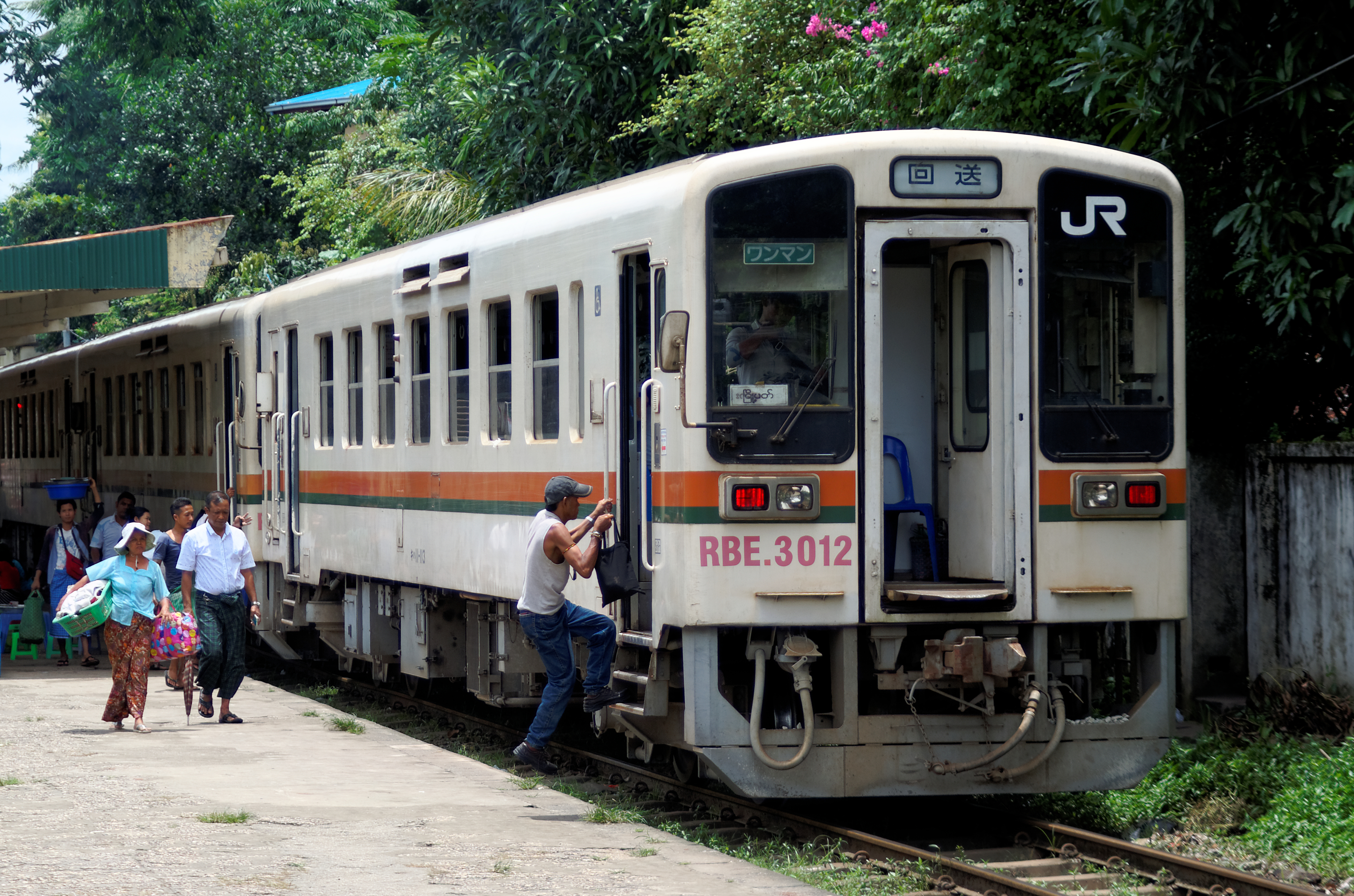 Diesel multiple unit KiHa 11, former Central Japan Railway, now serving at Yangon Circular Railway, Yangon Central Railway Station, Myanmar